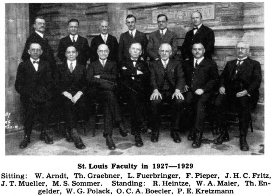 Concordia Seminary, St. Louis Faculty in 1927-1929 Sitting: W. Arndt, Th. Graebner, L. Fuerbringer, F.Pieper, J. H.C.Fritz, J.T.Mueller, M. S. Sommer Standing: R. Heintze, W. A. Maier, Th. Engelder, W. G. Polack, O. C A. Boeder, P. E. Kretzmann